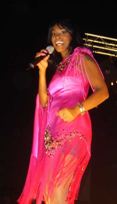 Dutch singer/actress Lucretia van der Vloot